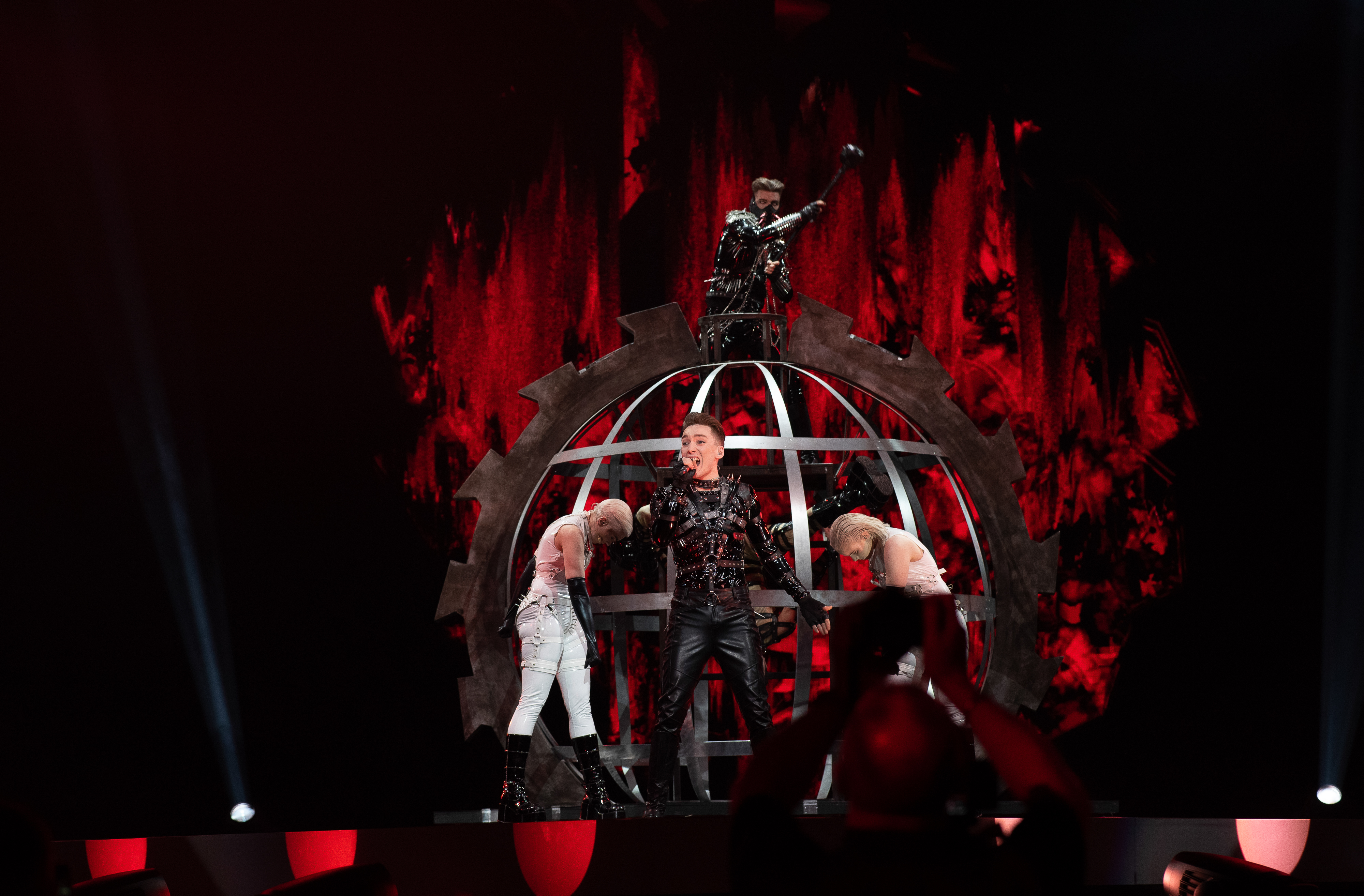 At the 2019 Eurovision Song Contest Semi-final 1 dress rehearsal